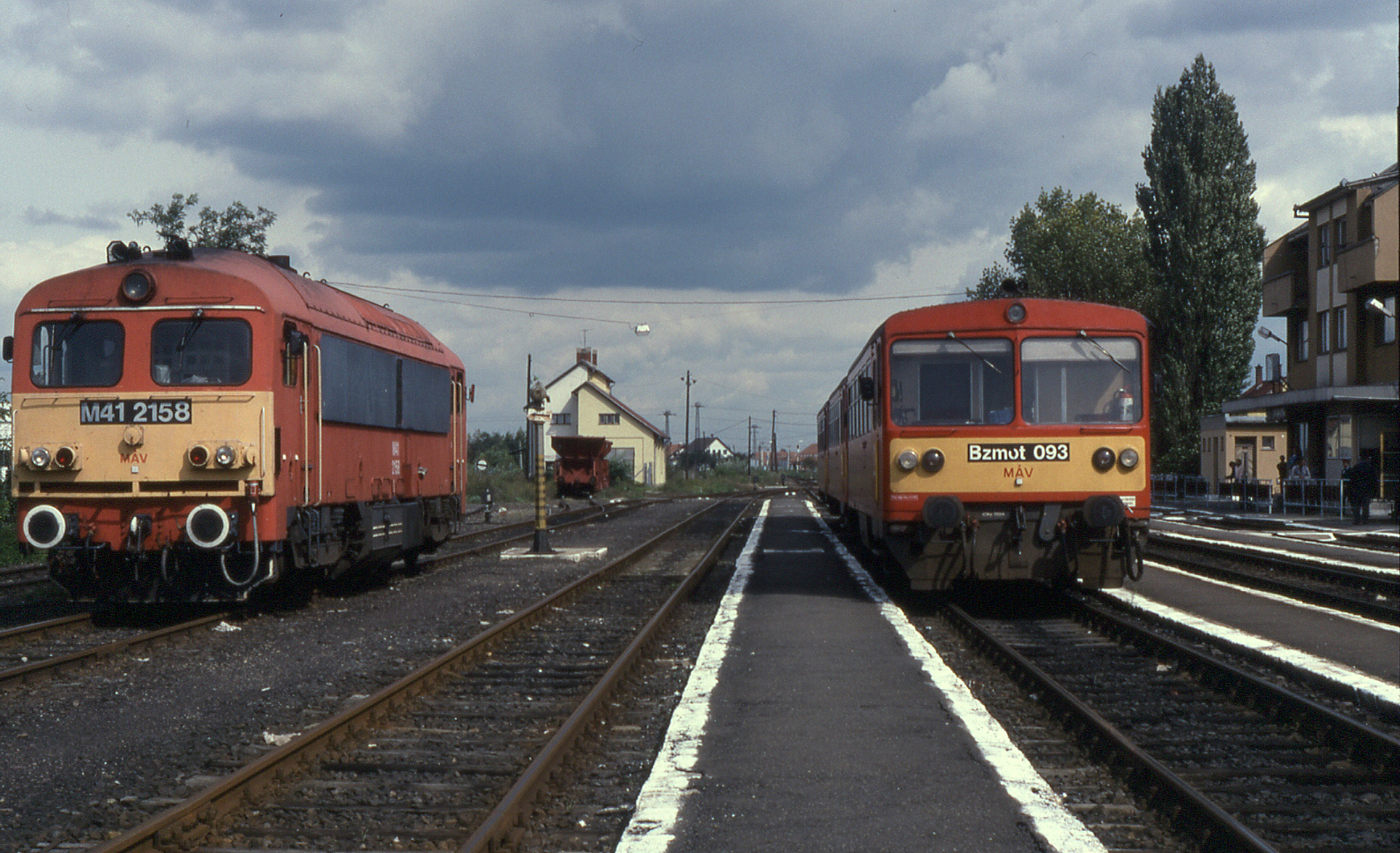 Szeghalom, 16 September 1996. To the left M41 2158 stands light engine with Bzmot 093 on train 37515, 08:43 Gyoma to Vésztõ.